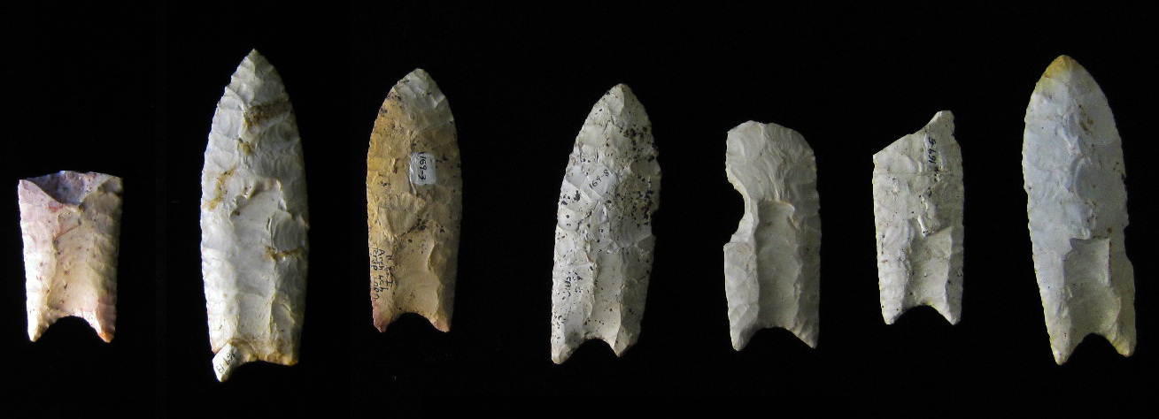 Clovis points from the Rummells-Maske Site, 13CD15, Cedar County, Iowa, These are from the Iowa Office of the State Archaeologist collection.